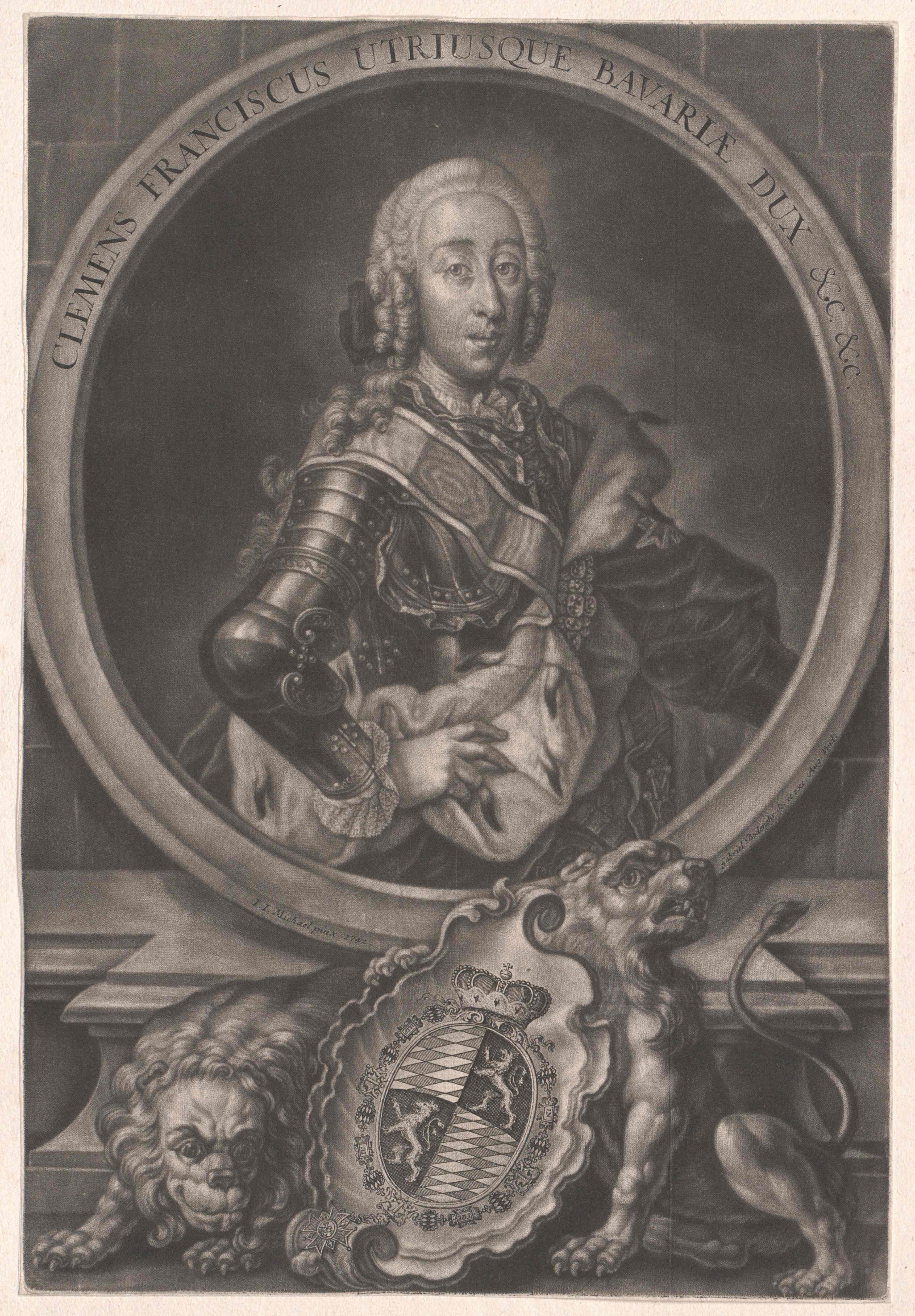 Portrait of the Duke Clement Francis of Bavaria (1722-1770)